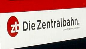 Zentralbahn